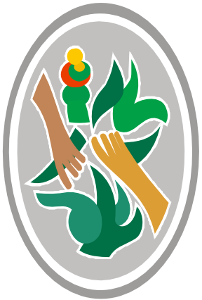 escudo acapulco